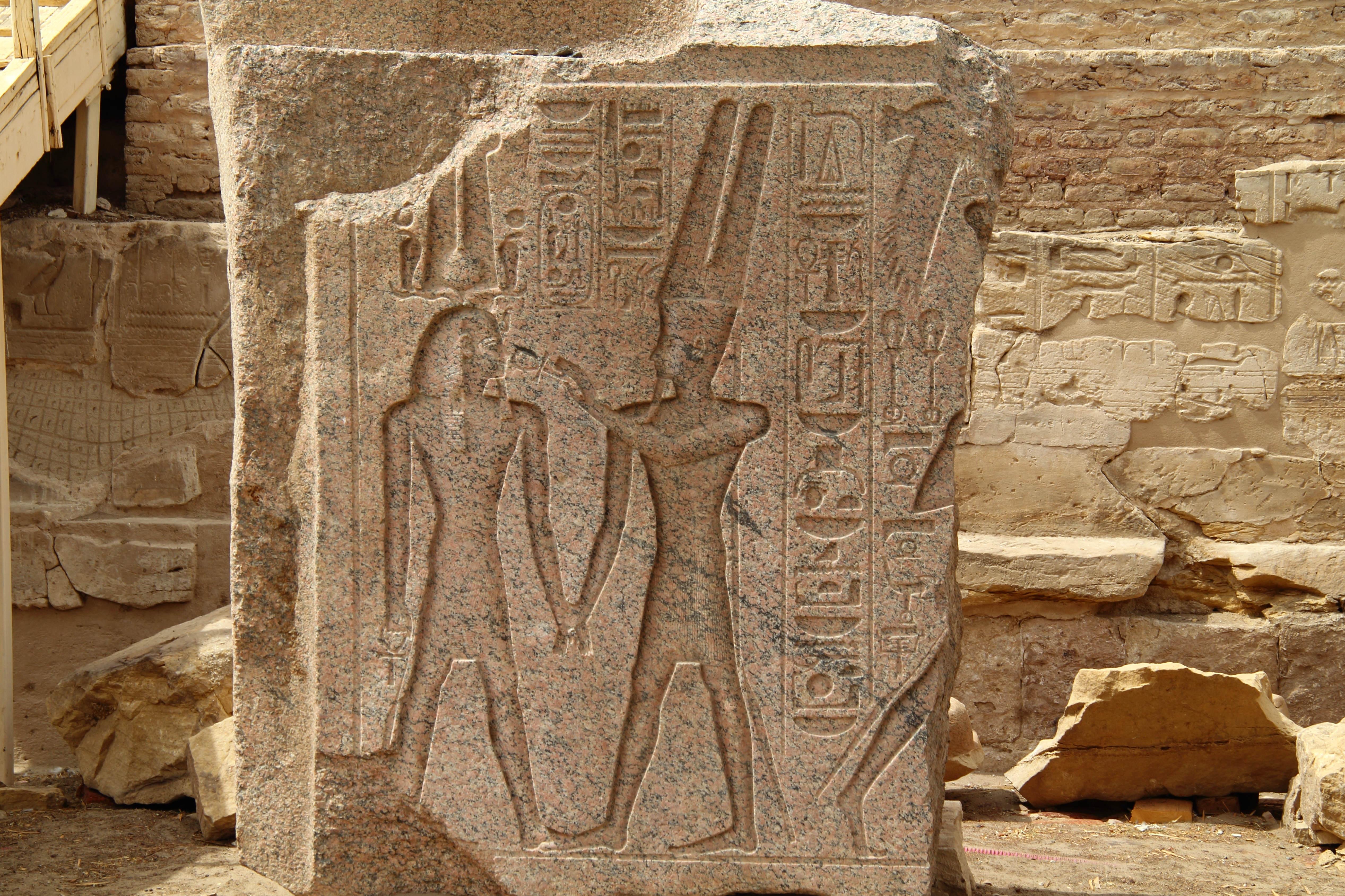 Luxor, Egypt: Ramesseum, mortuary temple of king Ramesses II, granite stele with sunken relief, the god Amun-Re (right) and the king Ramesses II hold hands, the god holds the hieroglyph for "life" (Ankh) to the king's nose, inscription reading: "Amun-Re, king of the gods, Lord of Heaven, ruler of Thebes", "Citation: I give you all life, constancy and well-being, all health, all joy of the heart, all ability, all strength." Left the King Ramesses II with the inscription:" Lord of the two countries, Lord of Power, User-Maat-Re Setep-en-Re (throne name of Ramesses II.)"